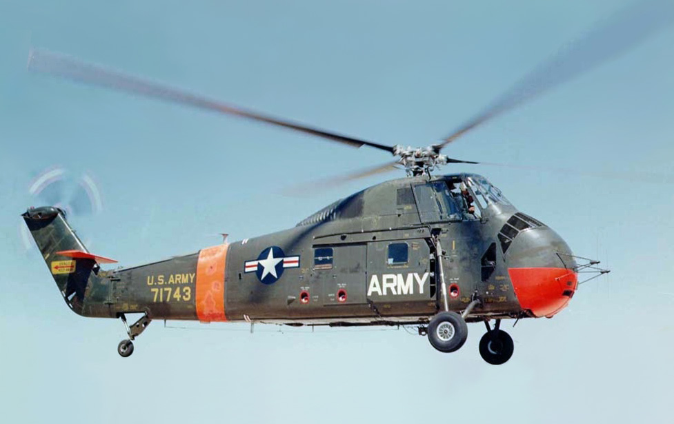 Sikorsky S-58 landing (cropped)